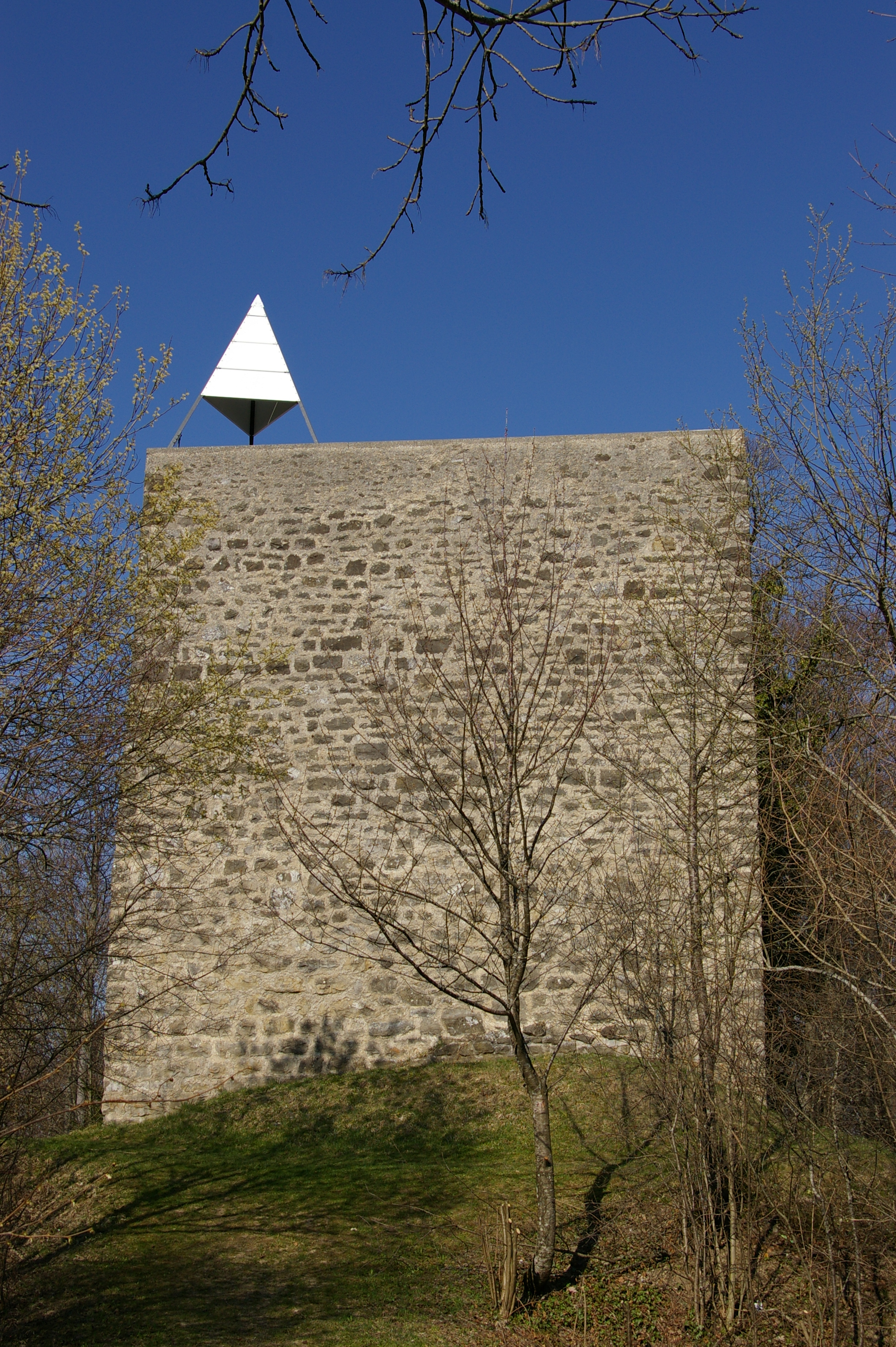 Tour de Gourze Near Riex / Switzerland